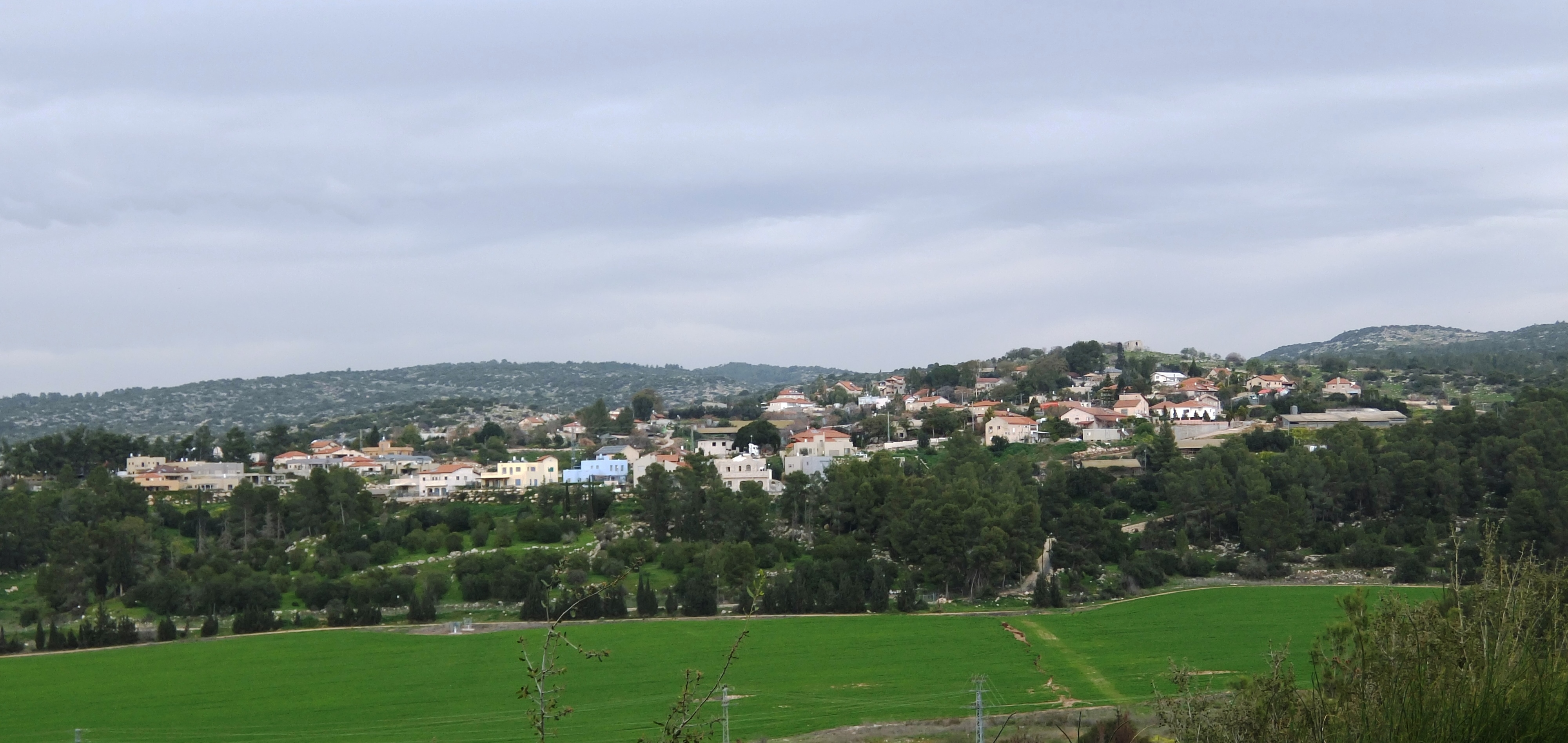 A general view of Moshav Aviezer, taken from Neve Michael